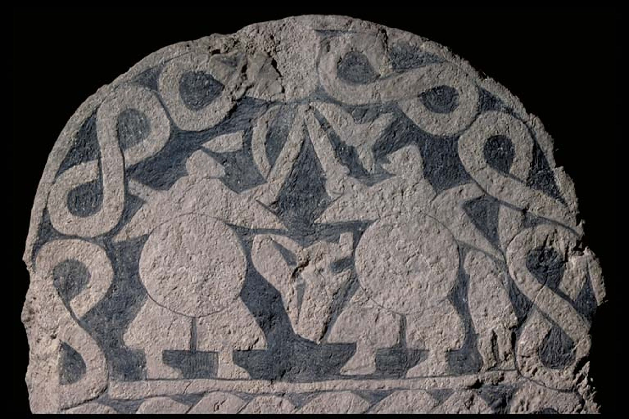 Vikings